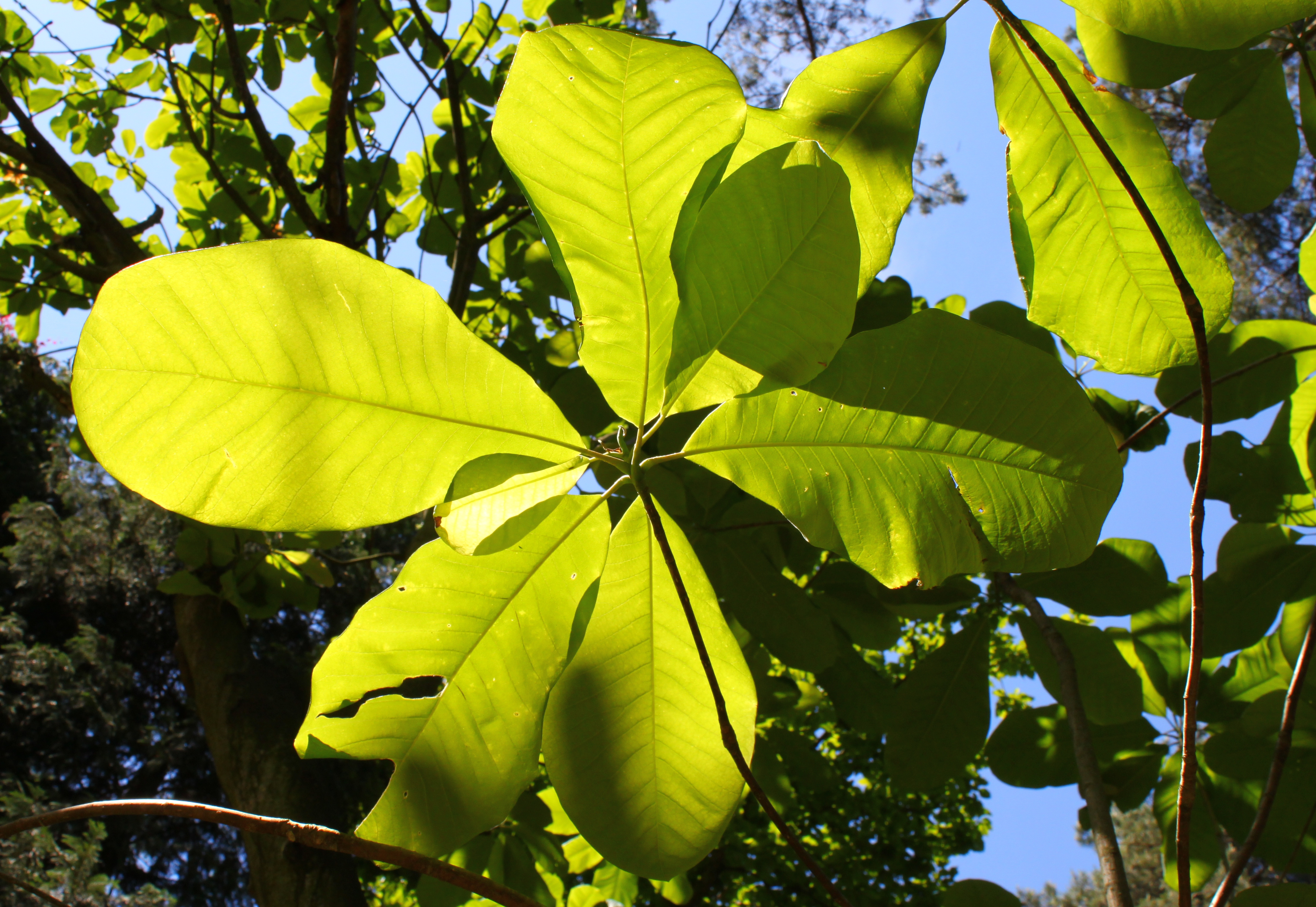 Magnolia officinalis in Rogów Arboretum